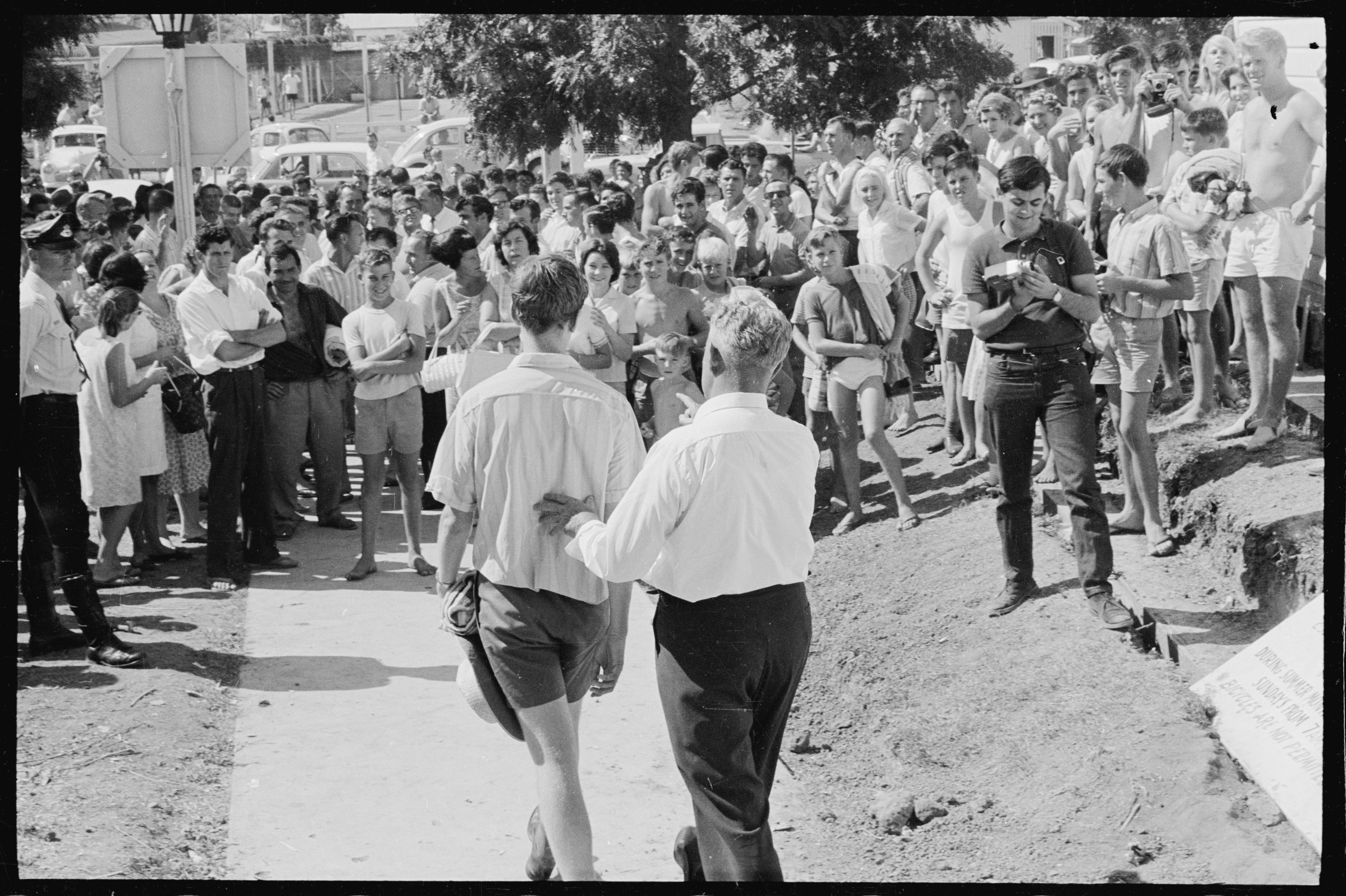 Can you help identify the people and places documented in this photograph? Call Number:ON 161/220 Format: Photograph 35 mm Find more detailed information about this photograph: Search for more great images in the State Library's collections: .au/search/SimpleSearch.aspx For more information about Indigenous Services at the State Library of NSW: Protocols for Libraries and Archives. Further information on the ATSILIRN Protocols is available here .au/protocols.php#_=_ From the collection of the State Library of New South Wales